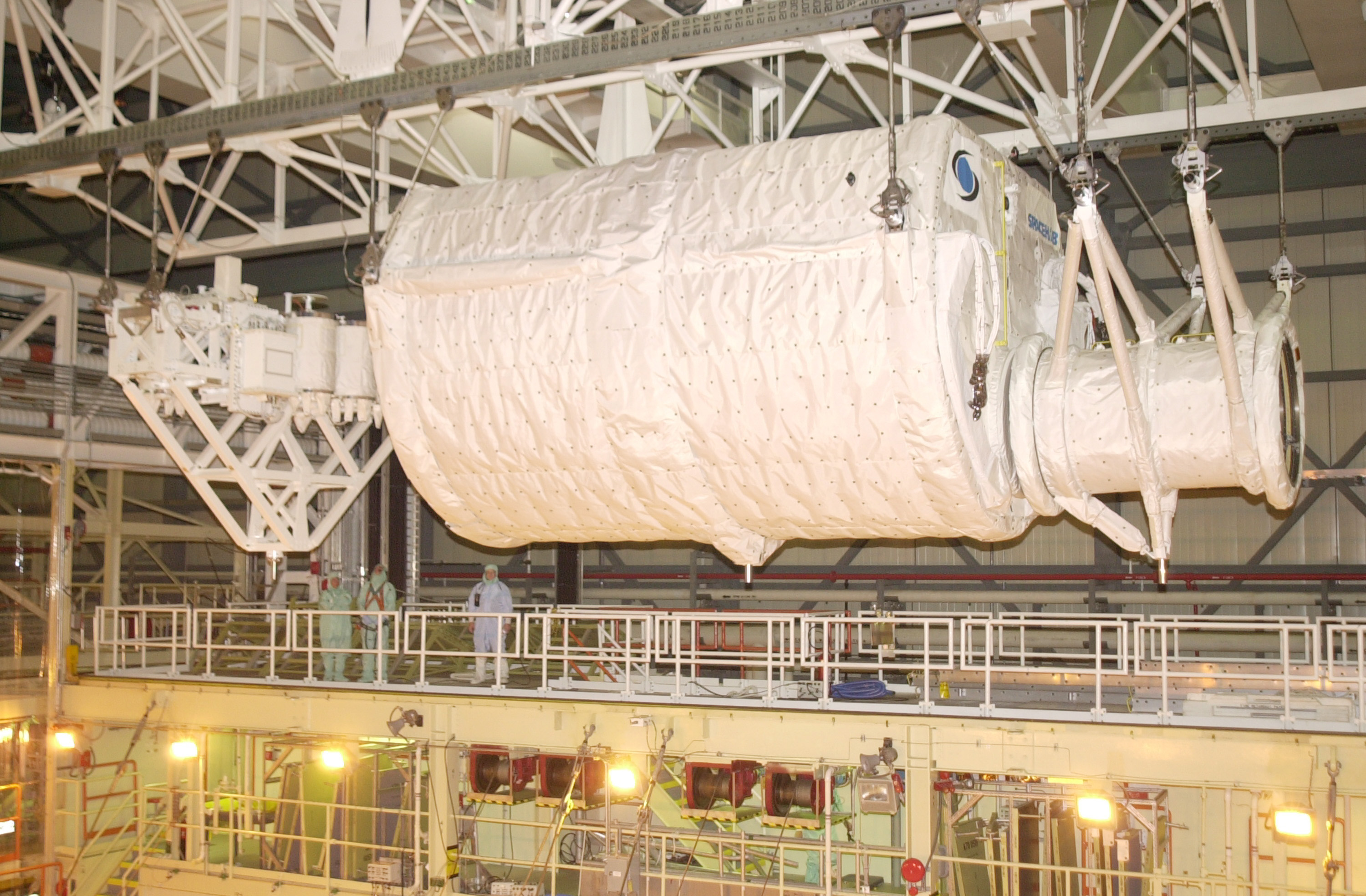 The Spacehab Research Double Module (RDM) (right) and Hitchhiker Carrier (left) are ready to be lowered into Columbia's payload bay. The two payloads will be installed in the payload bay for mission STS-107, a research mission. Also, the Fast Reaction Experiments Enabling Science, Technology, Applications and Research (FREESTAR) that is on the Hitchhiker Carrier incorporates eight high priority secondary attached shuttle experiments